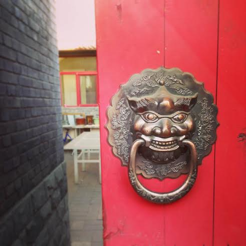 The doorway to the Crossroads Centre Beijing.